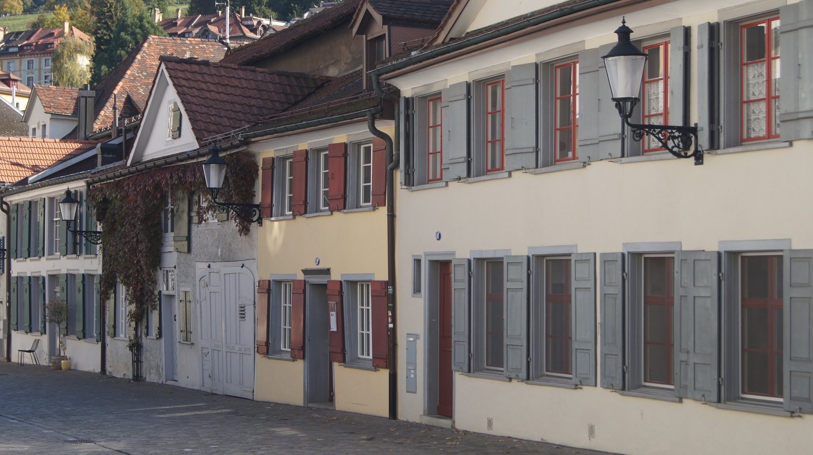 St. Gall, houses Zeughausgasse 4–10